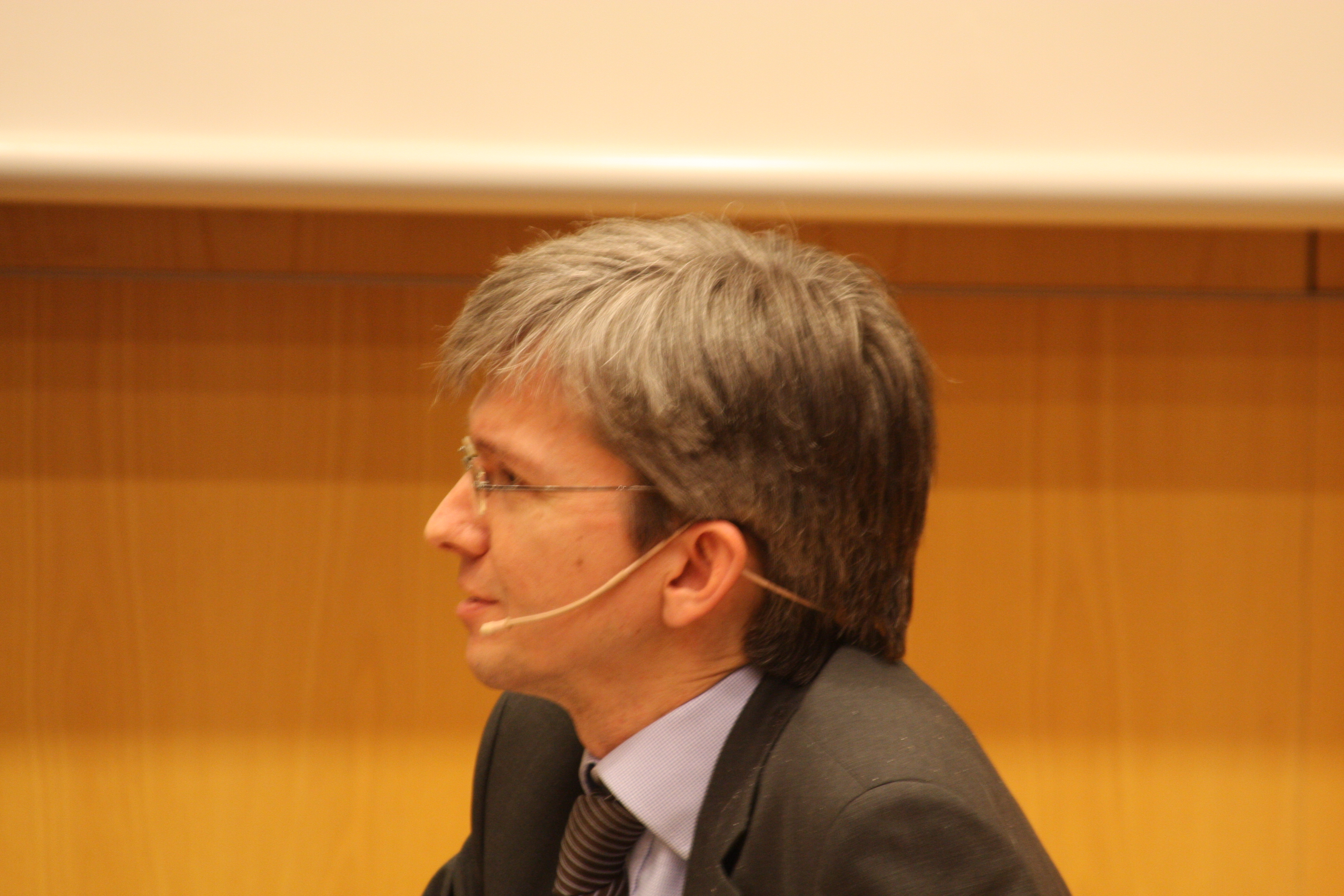 Paul Chaffey, director of Abelia. Former MP of Norway (Socialist Left Party) from the county of Akershus, 1989-1997.